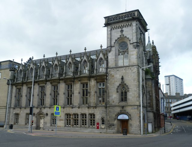 Royal Exchange, Panmure Street